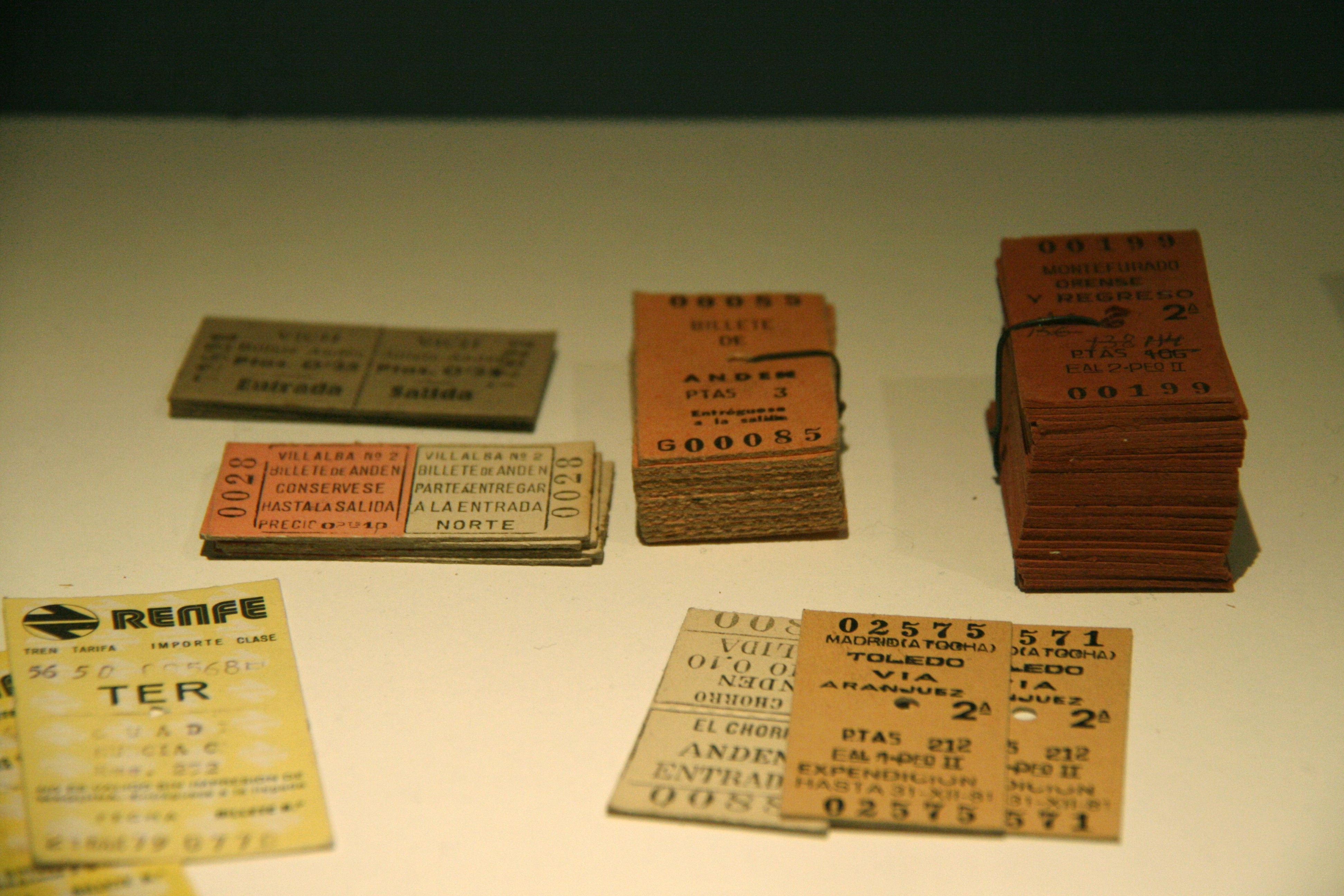 Rail tickets of Spain